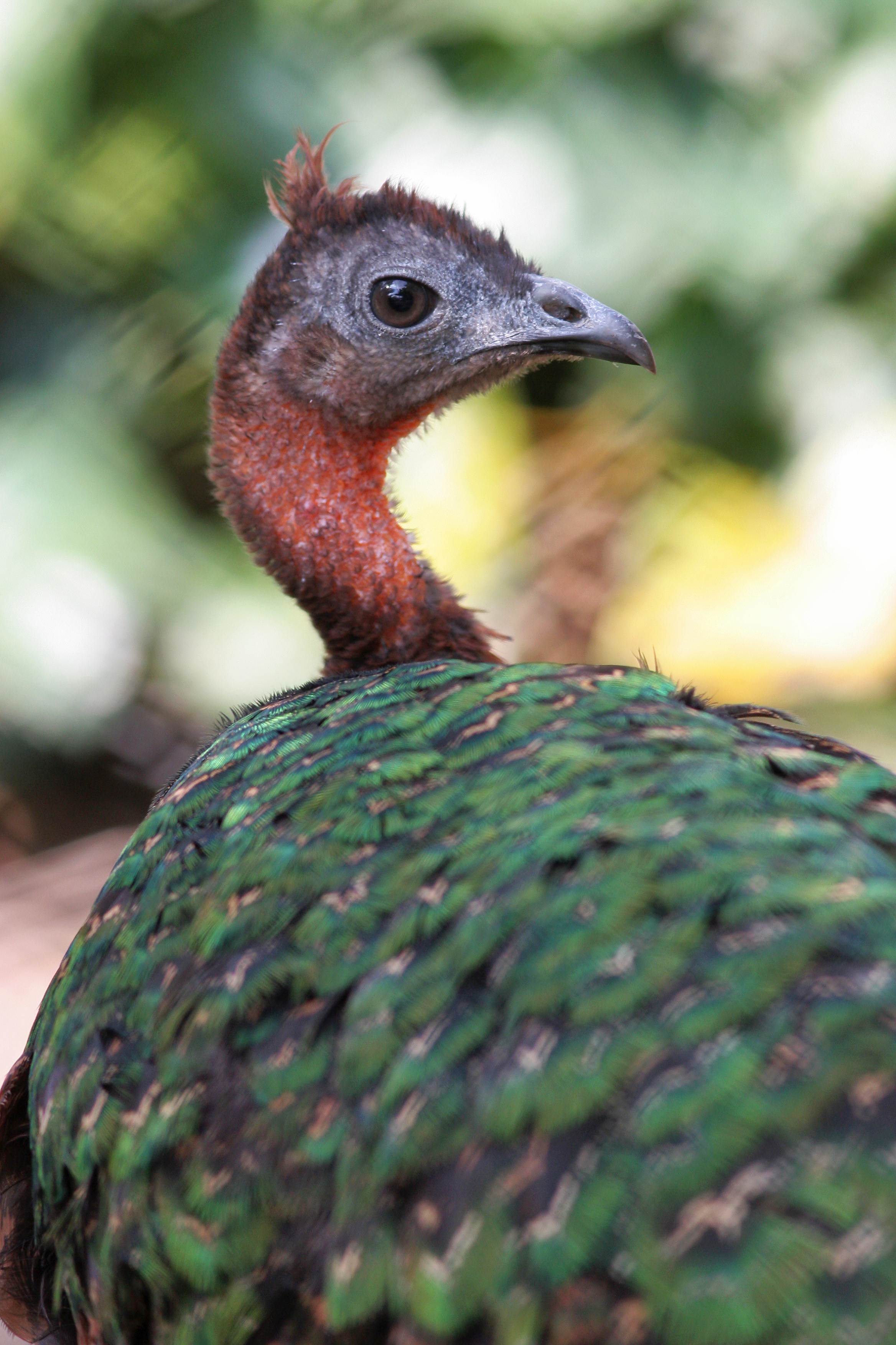 A female Congo Peafowl at Artis Zoo, Amsterdam, Netherlands.